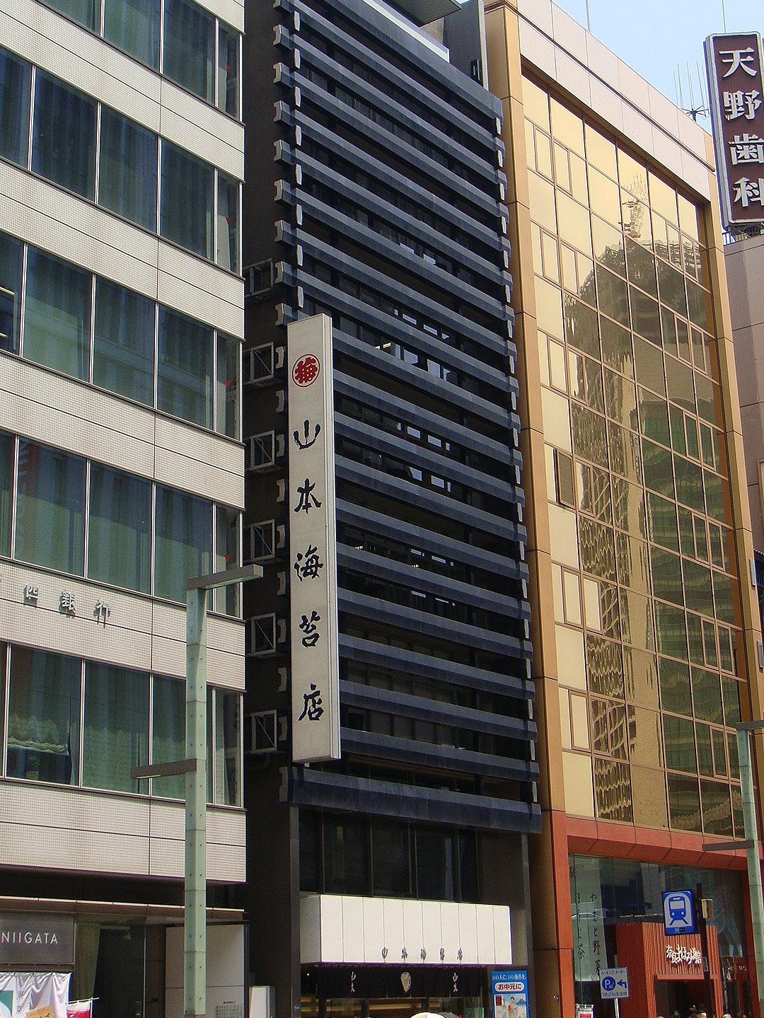 Headquaters of YAMAMOTO NORITEN CO.,LTD. in Nihonbashi, Tokyo, Japan